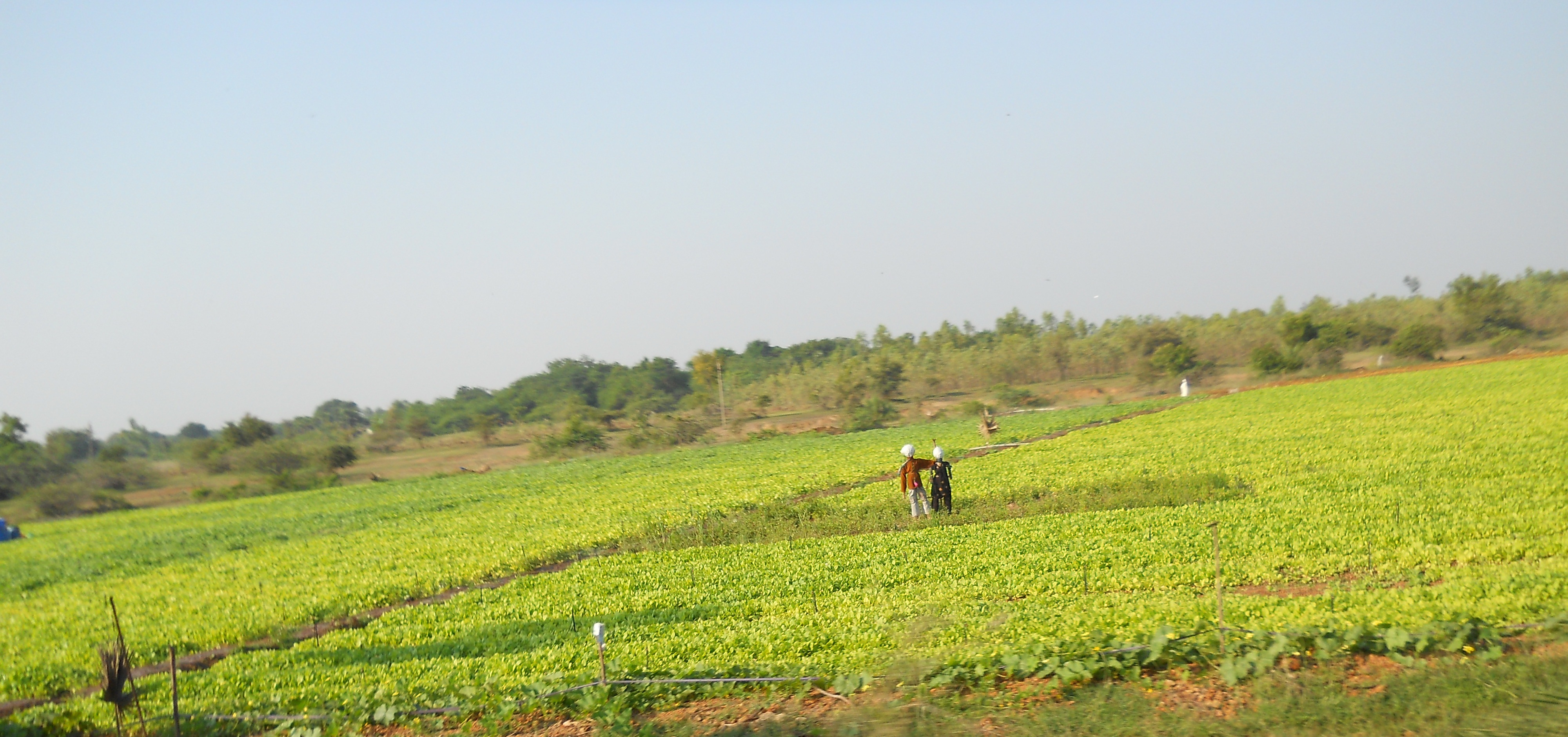 Scarecrow at Toboco field in Nellore district, A.P, India.